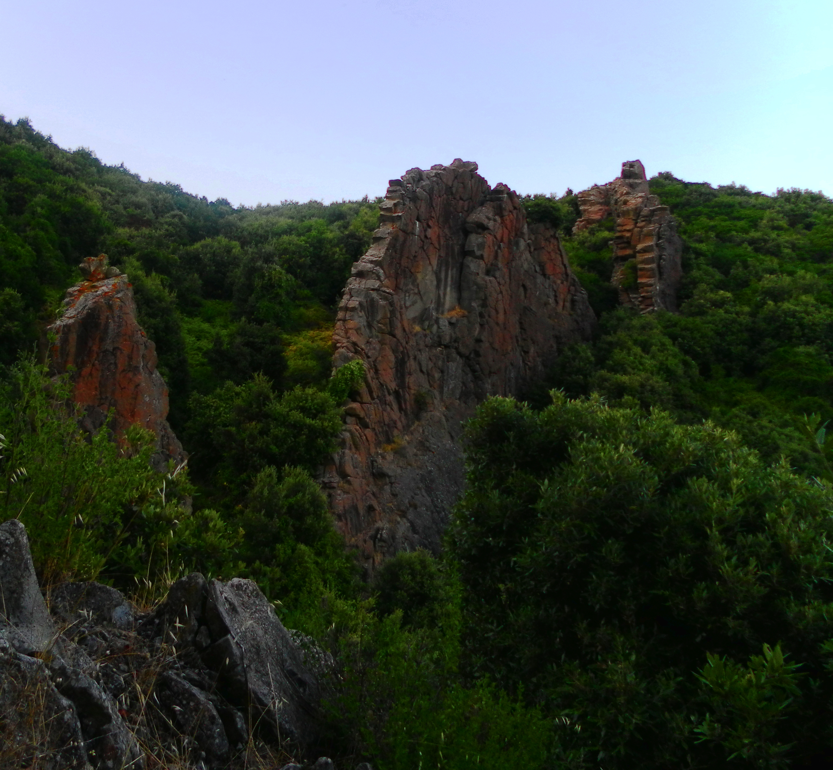 A dyke near Santu Lussurgiu in Sardinia, Italy.